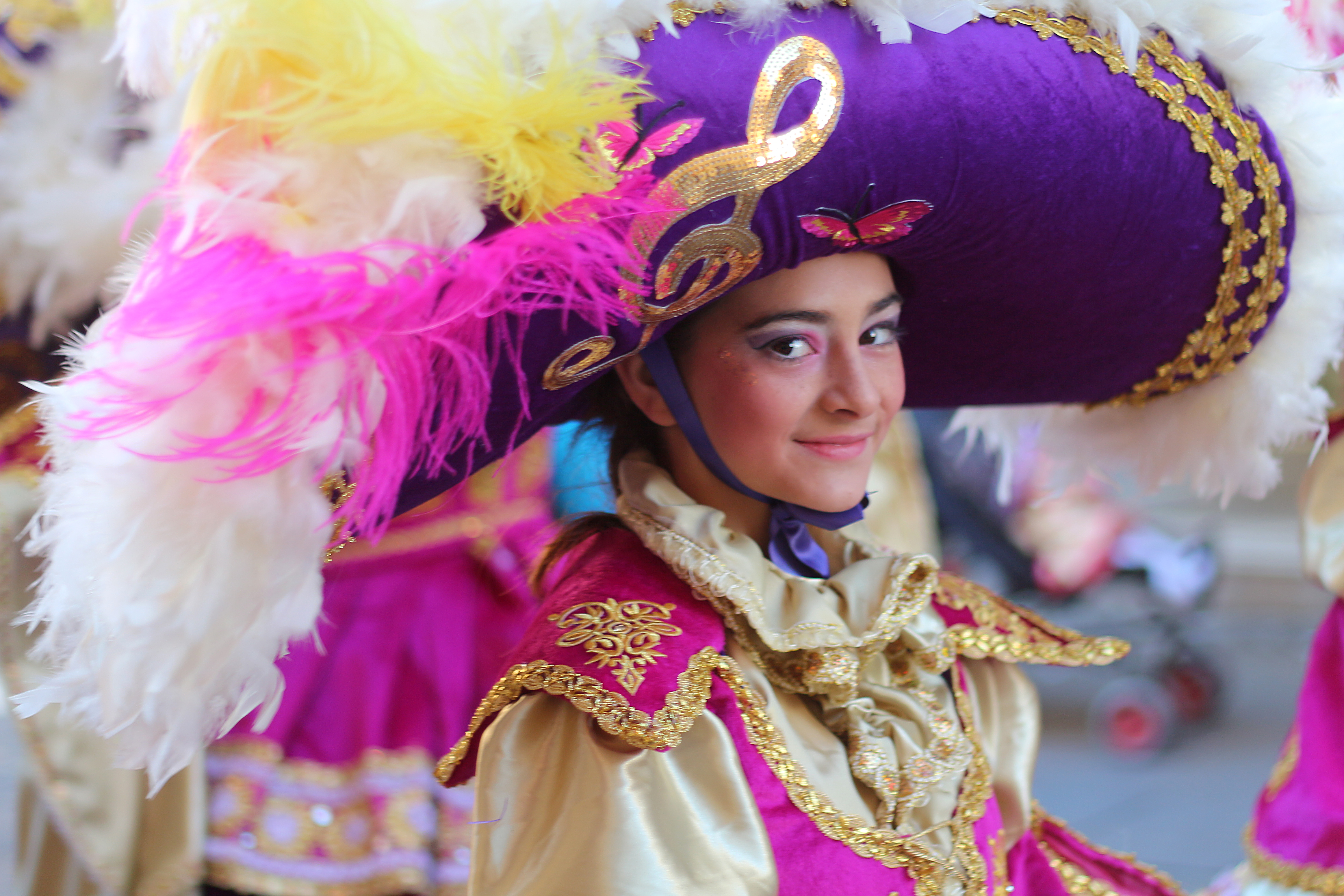 Carnival in Valletta, Malta.